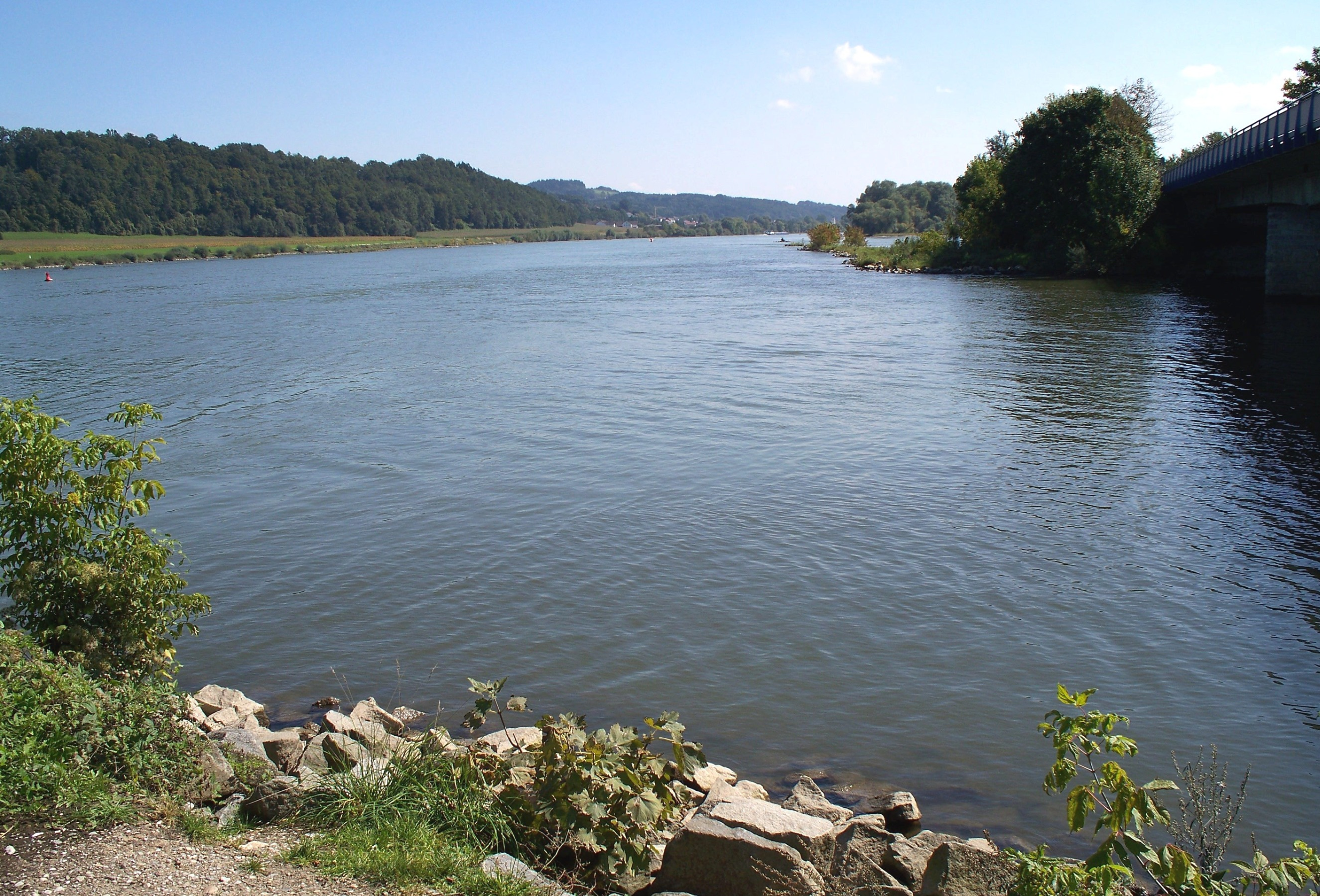 The confluence of the Vils and the Danube in Vilshofen an der Donau.